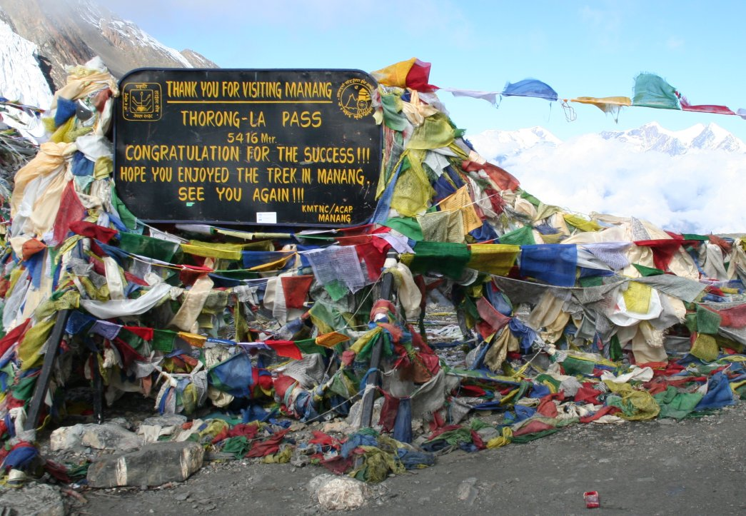 Sign at the top of Thorung La pass in Nepal. September 2006.